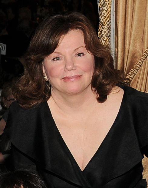 Annette Pfister, Susan Lang, Dennis Blackwell, Harry Neyens, Jim Kilpatric, Marsha Mason, guests, at the Drama League Benefit Gala Honoring Angela Lansbury, February 8, 2010. The Pierre, New York City. photo by Rob Rich